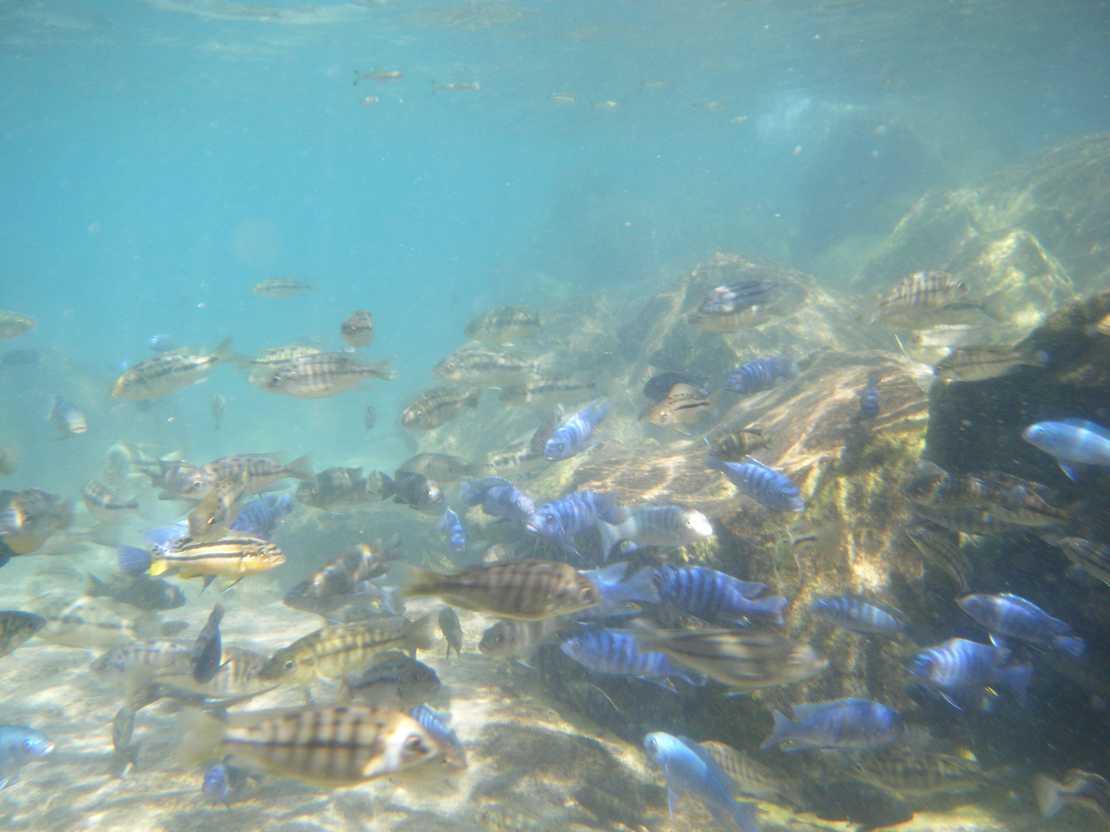 Mbuna community Thumbi West